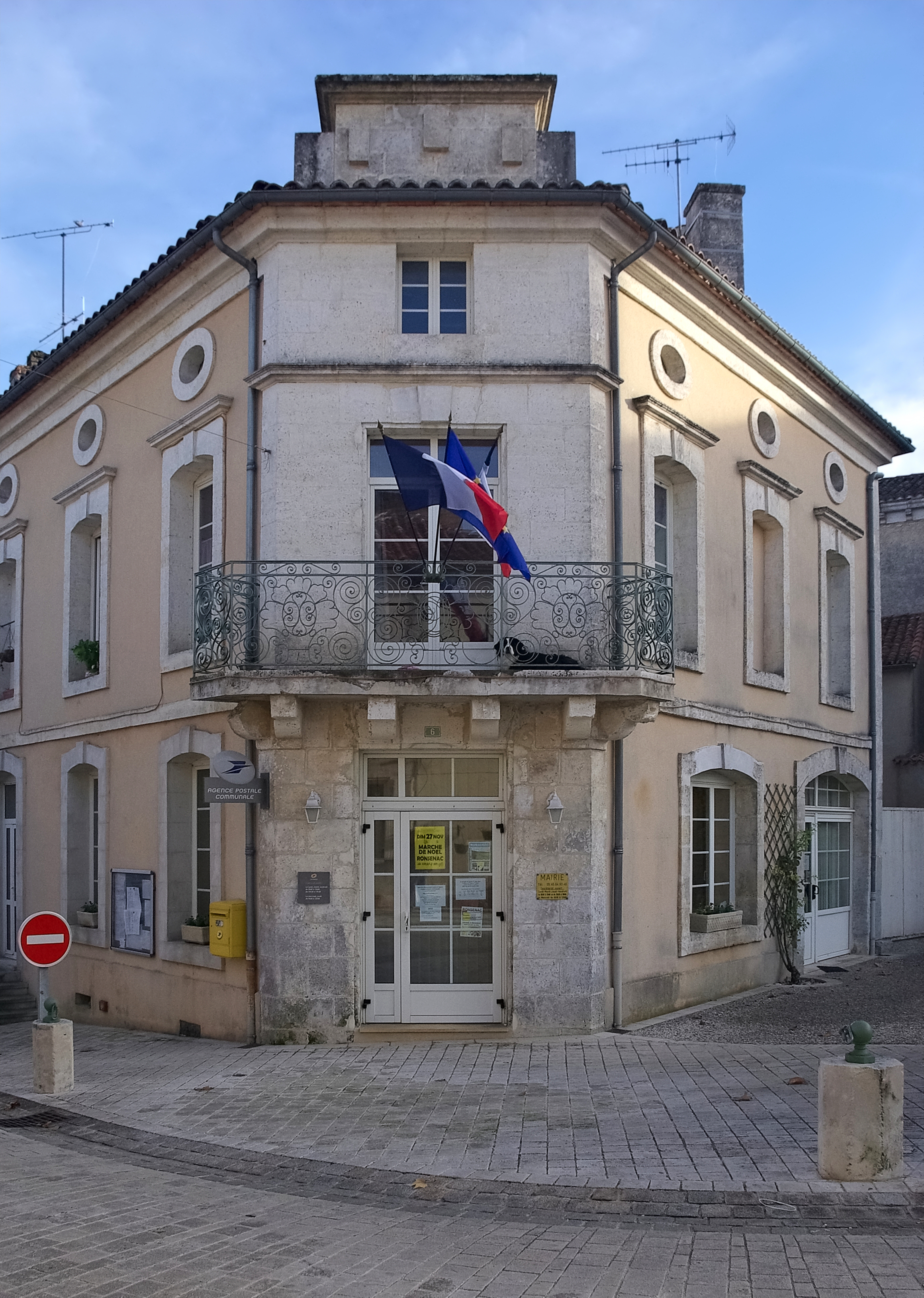 Facade of the town hall, Ronsenac, Charente, France.